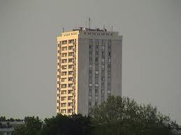 creil